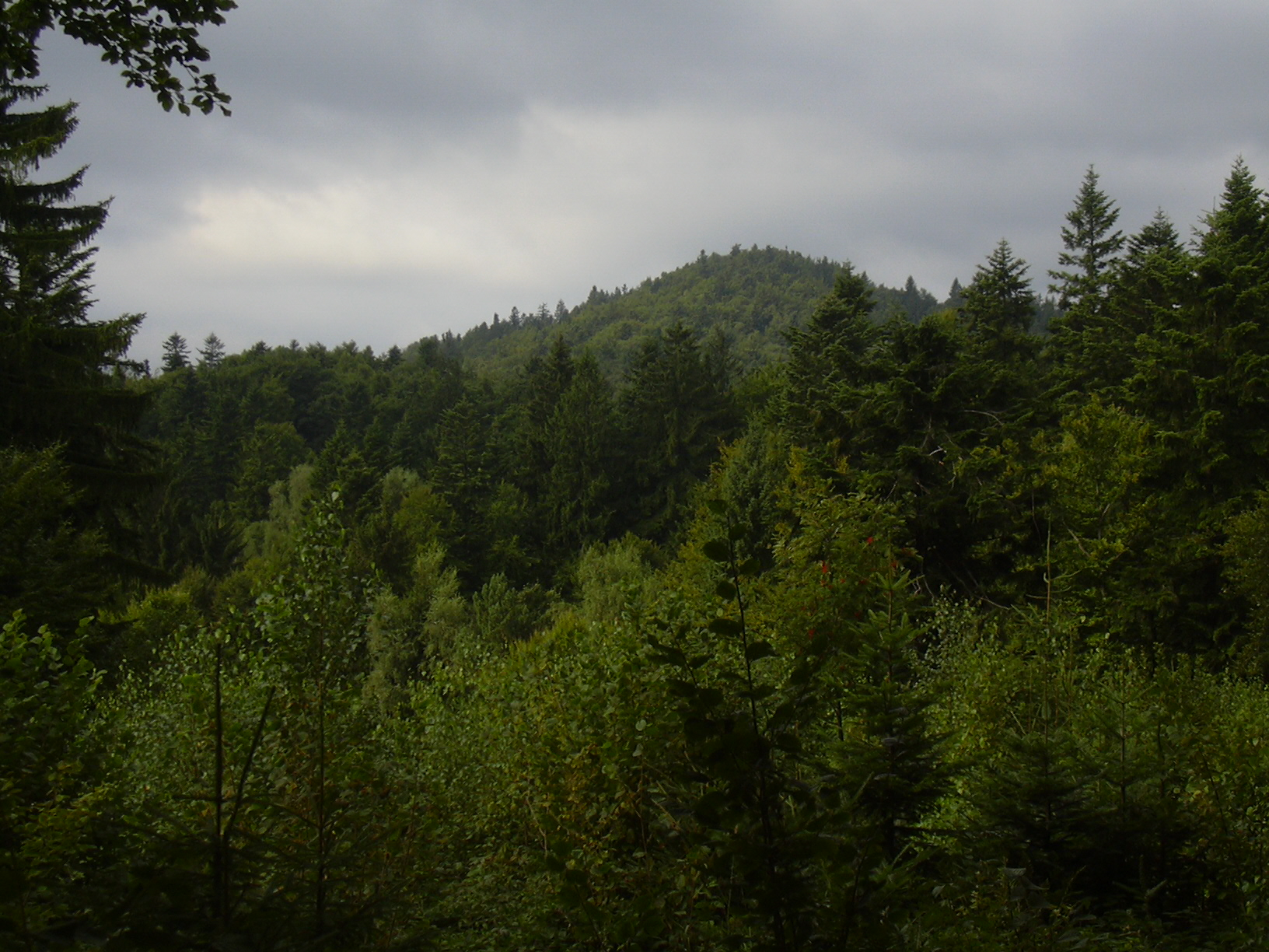 Makyta (923 m), a massive forested mountain in Javorníky on Czechoslovak border. The well preserved beech and fir forests on the slopes are the home of bear, wolf and lynx.